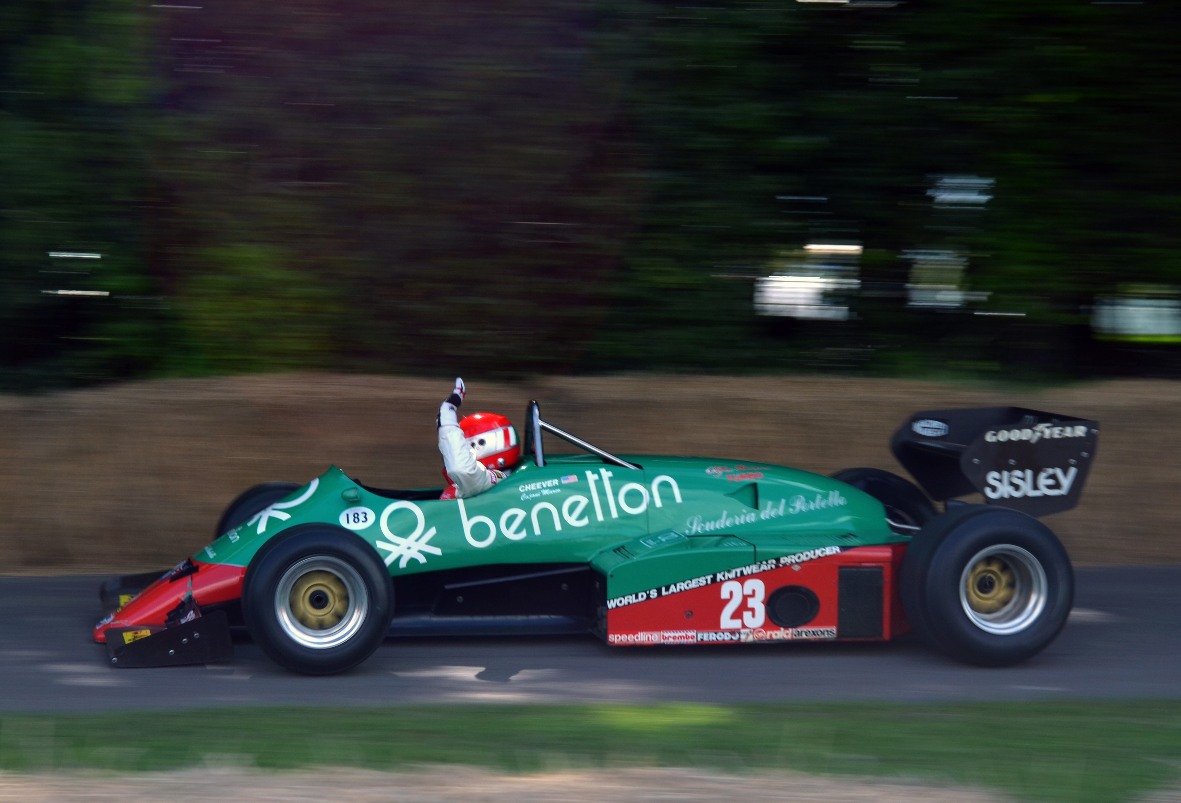 1983 turbo Formula One car at the 2012 Goodwood Festival of Speed. "Eddie Cheever"